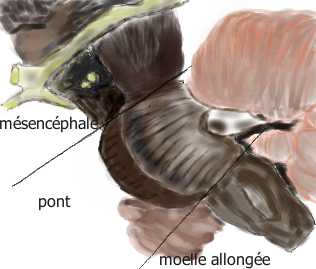 braimstem